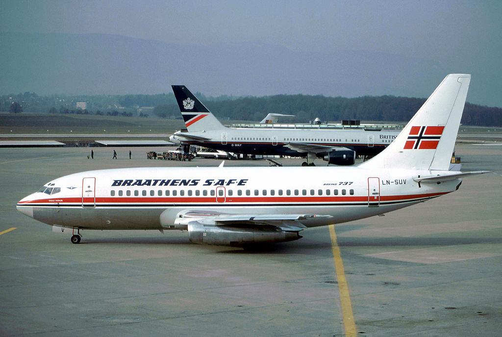 Braathens SAFE Boeing 737-200 and British Airways Boeing 757 at Geneva International Airport